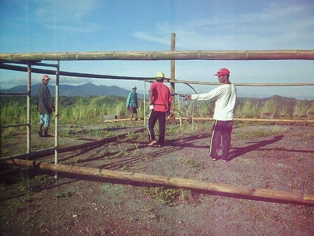 Setting up the foundation point box.